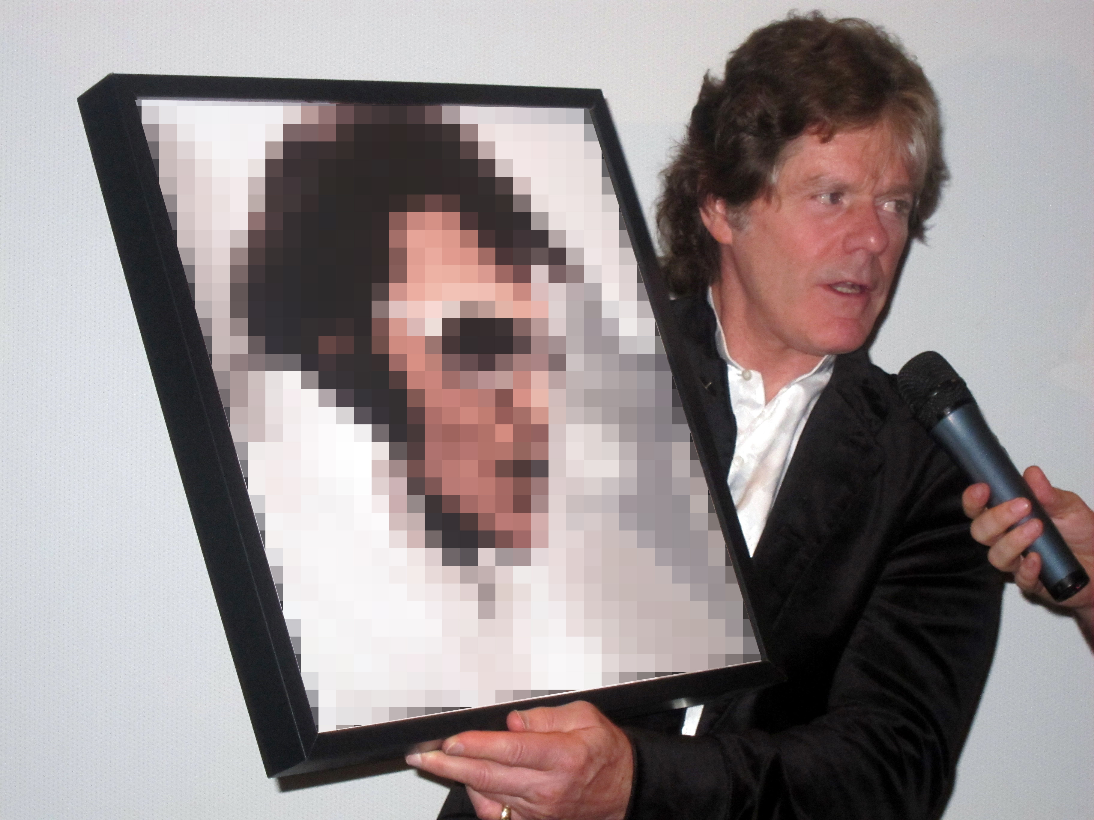 Manager of the Beach Boys, member of the Memphis Mafia